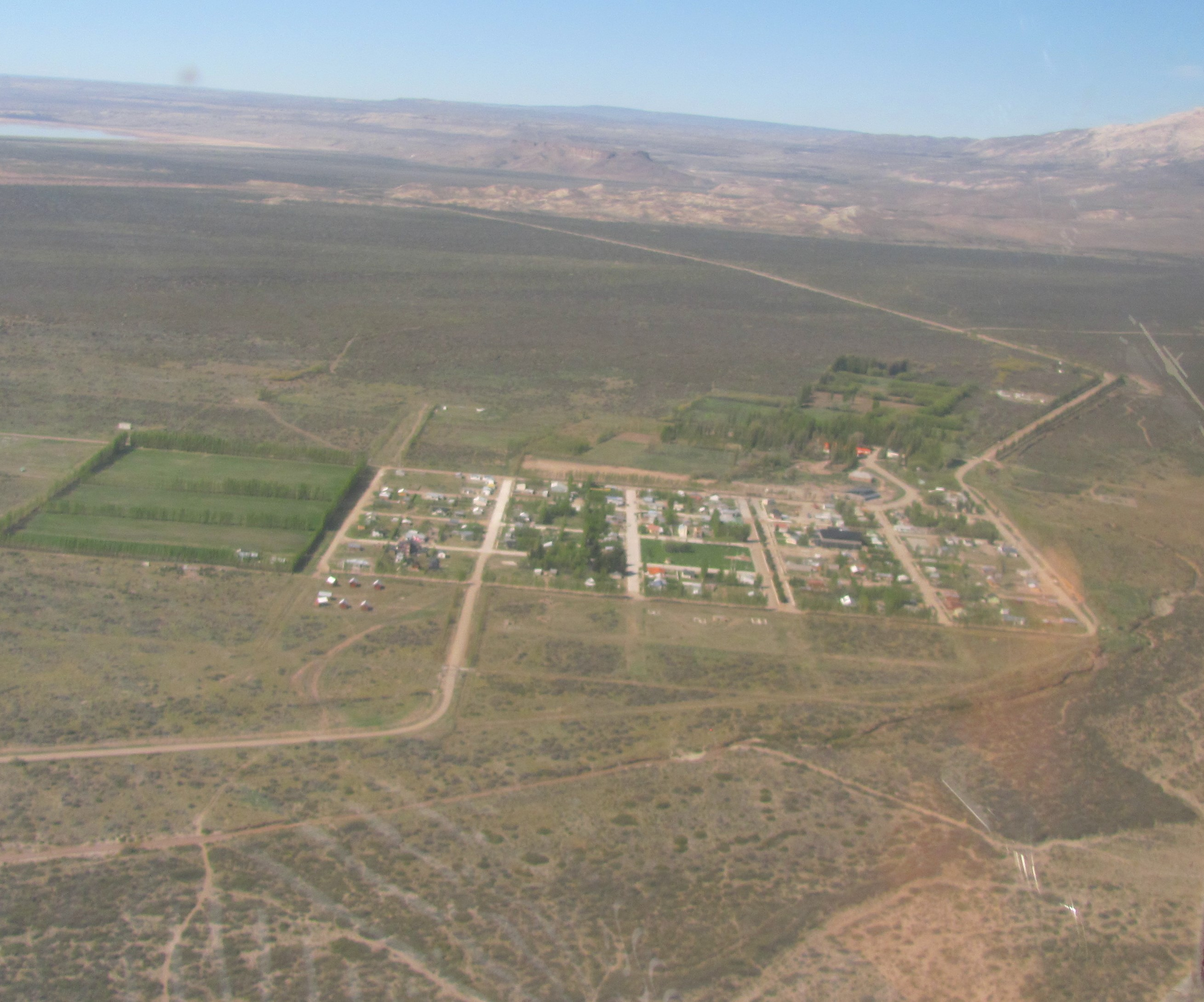 Aerial view of the town of Lago Posadas